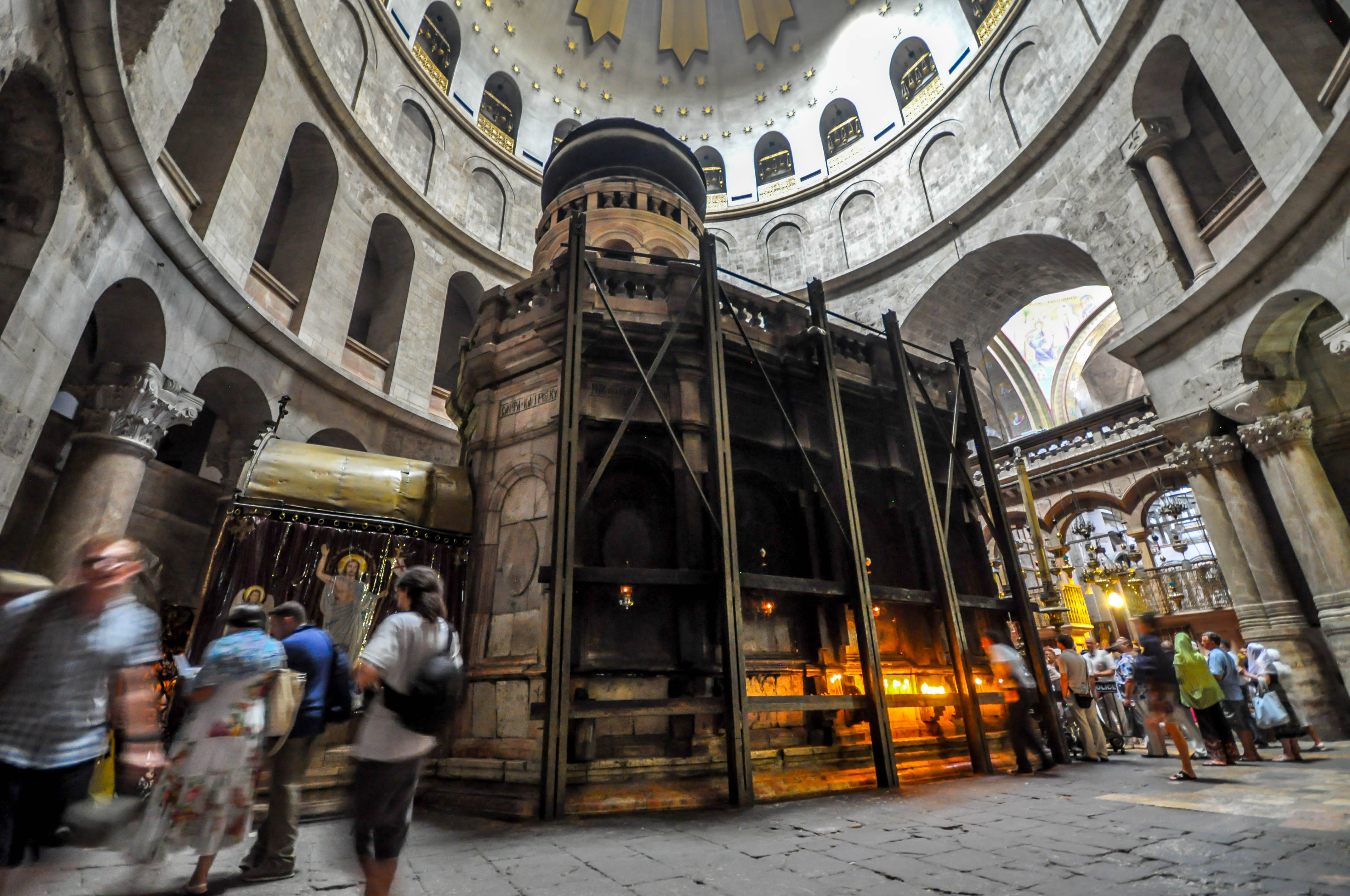 The Church of the Holy Sepulchre is a church within the Christian Quarter of the walled Old City of Jerusalem. It is a few steps away from the Muristan. The site is venerated as Calvary (Golgotha), where Jesus was crucified, and is said also to contain the place where Jesus was buried.